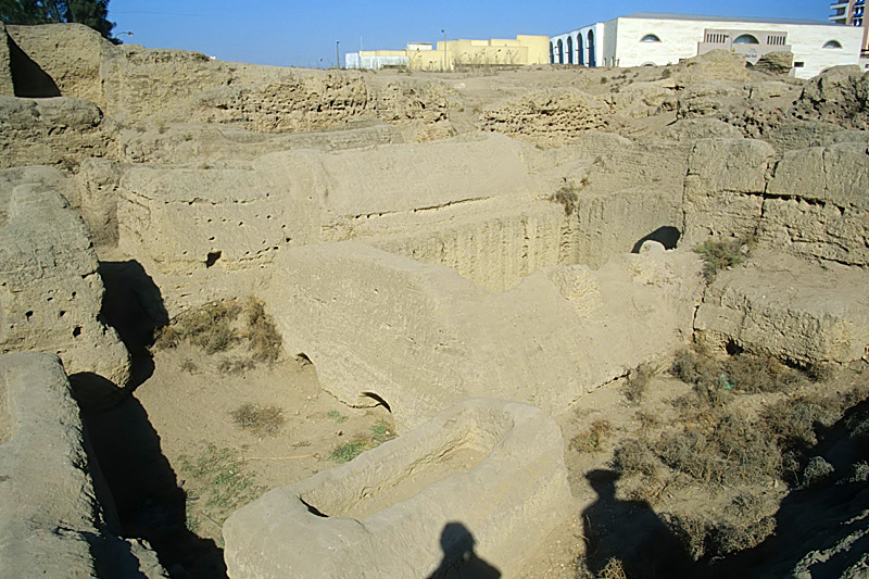 Cemetery, Tell Basta, Egypt